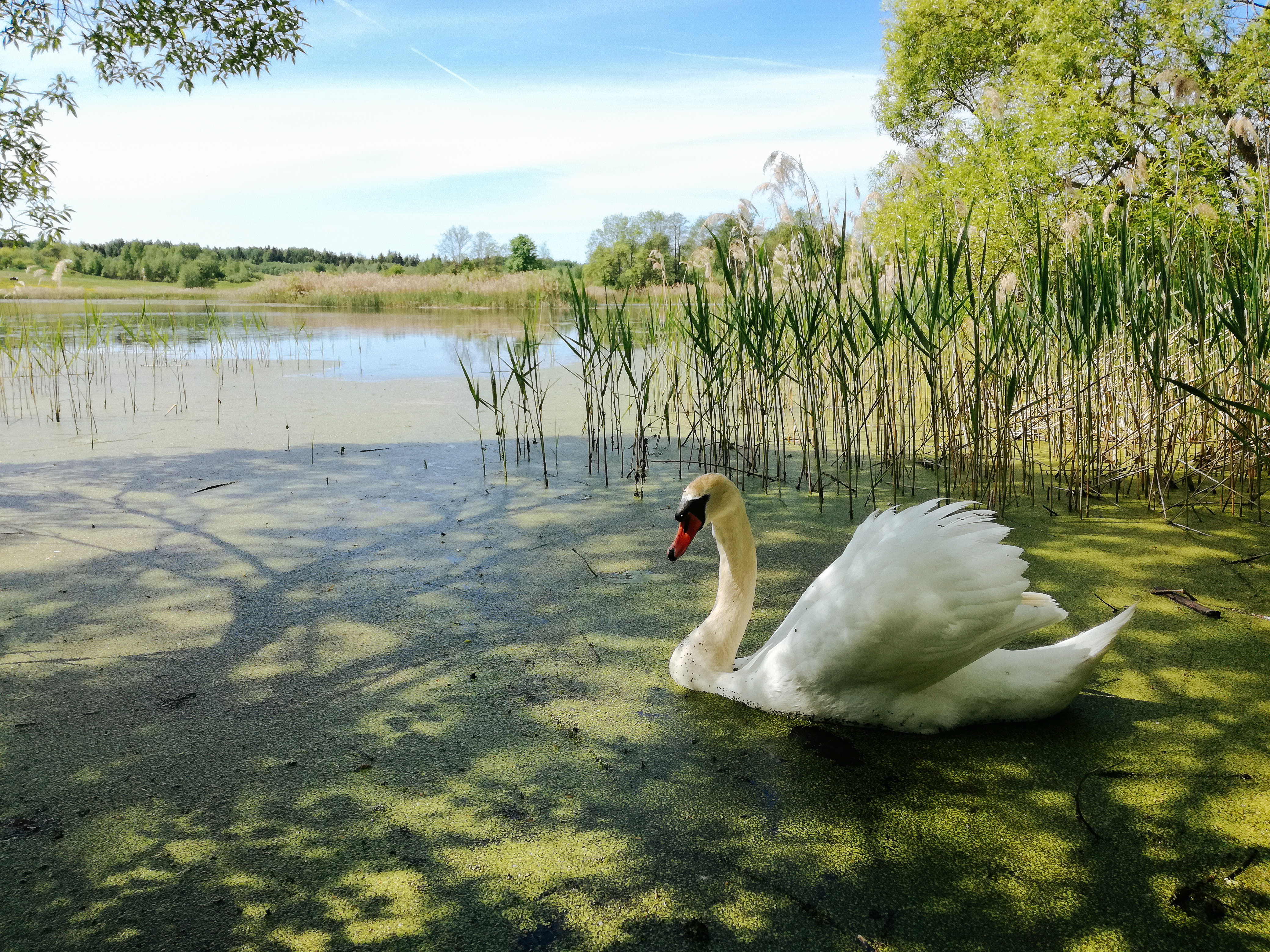 Norica_ozero